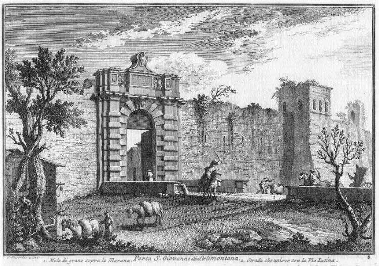 1) Mola sulla marana (mill on a small stream of water); 2) Road leading to Via Latina.